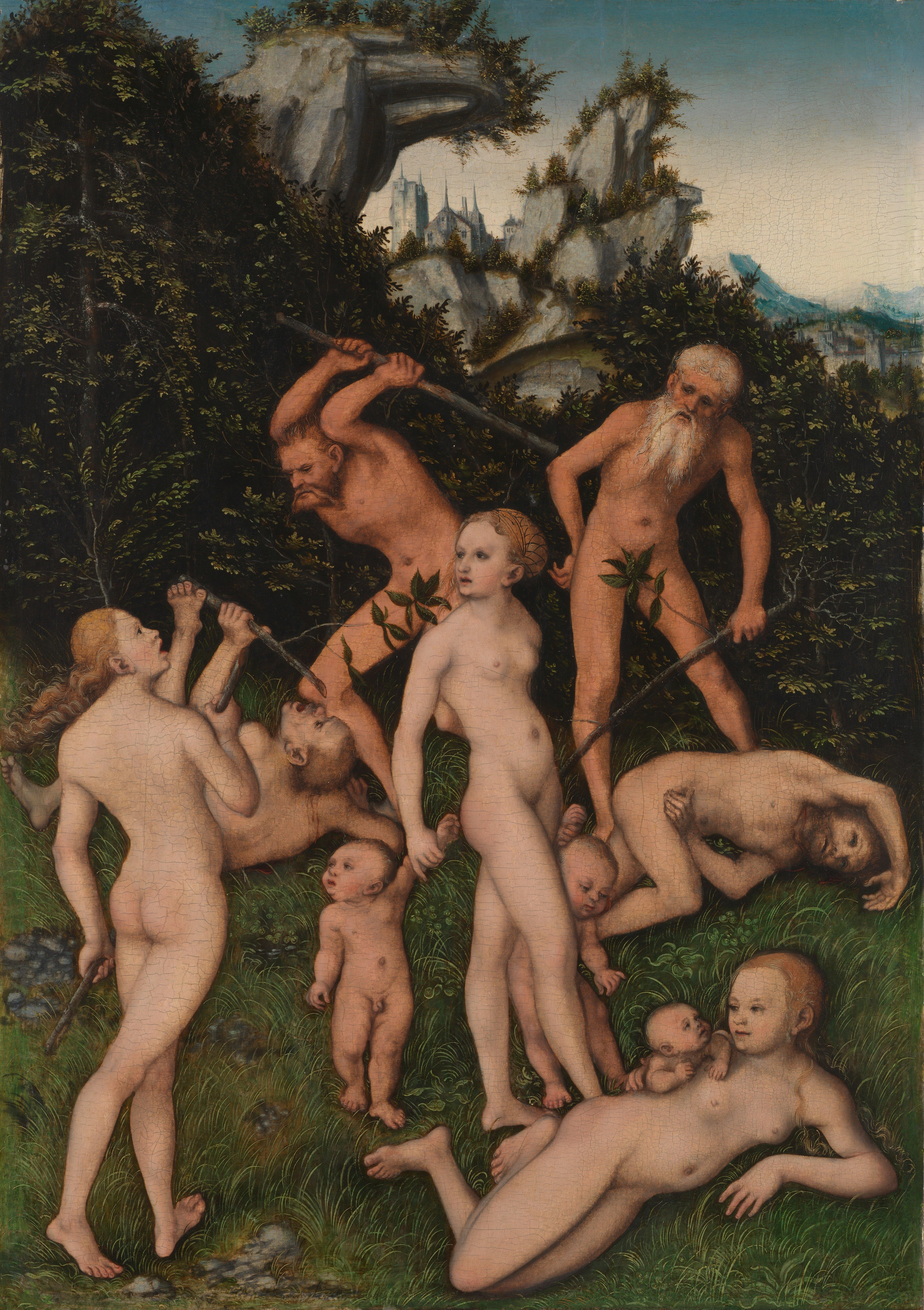 The subject possibly shows the quarrelsome end of the Silver Age, according to Hesiod, or perhaps according to a contemporary derivation from him.[1]